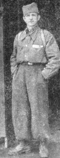 Alojz Lojze Hohkraut (1901-1942), Slovene partisan